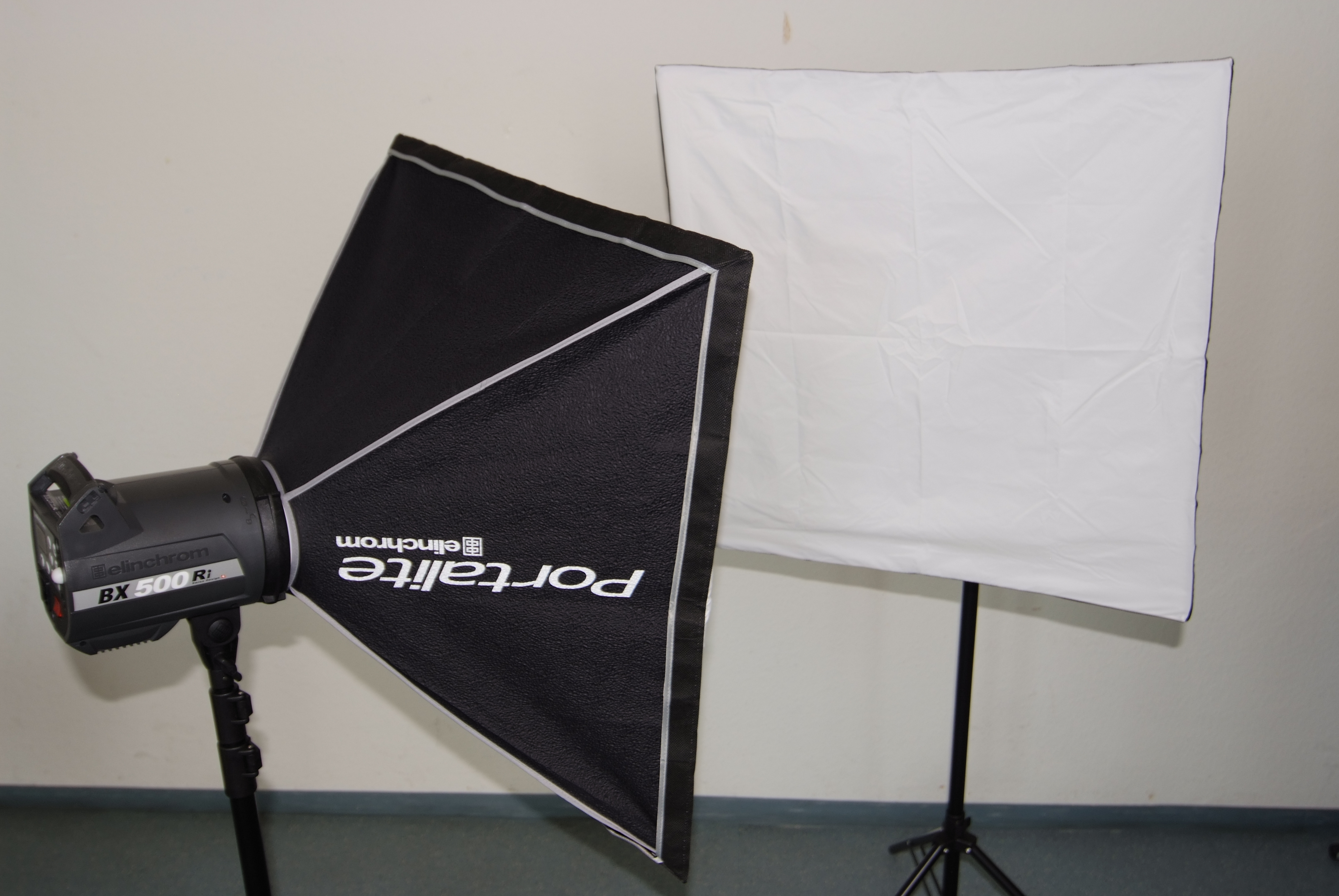 transportable Studio-Blitzanlage (elinchrom BX 500 Ri)